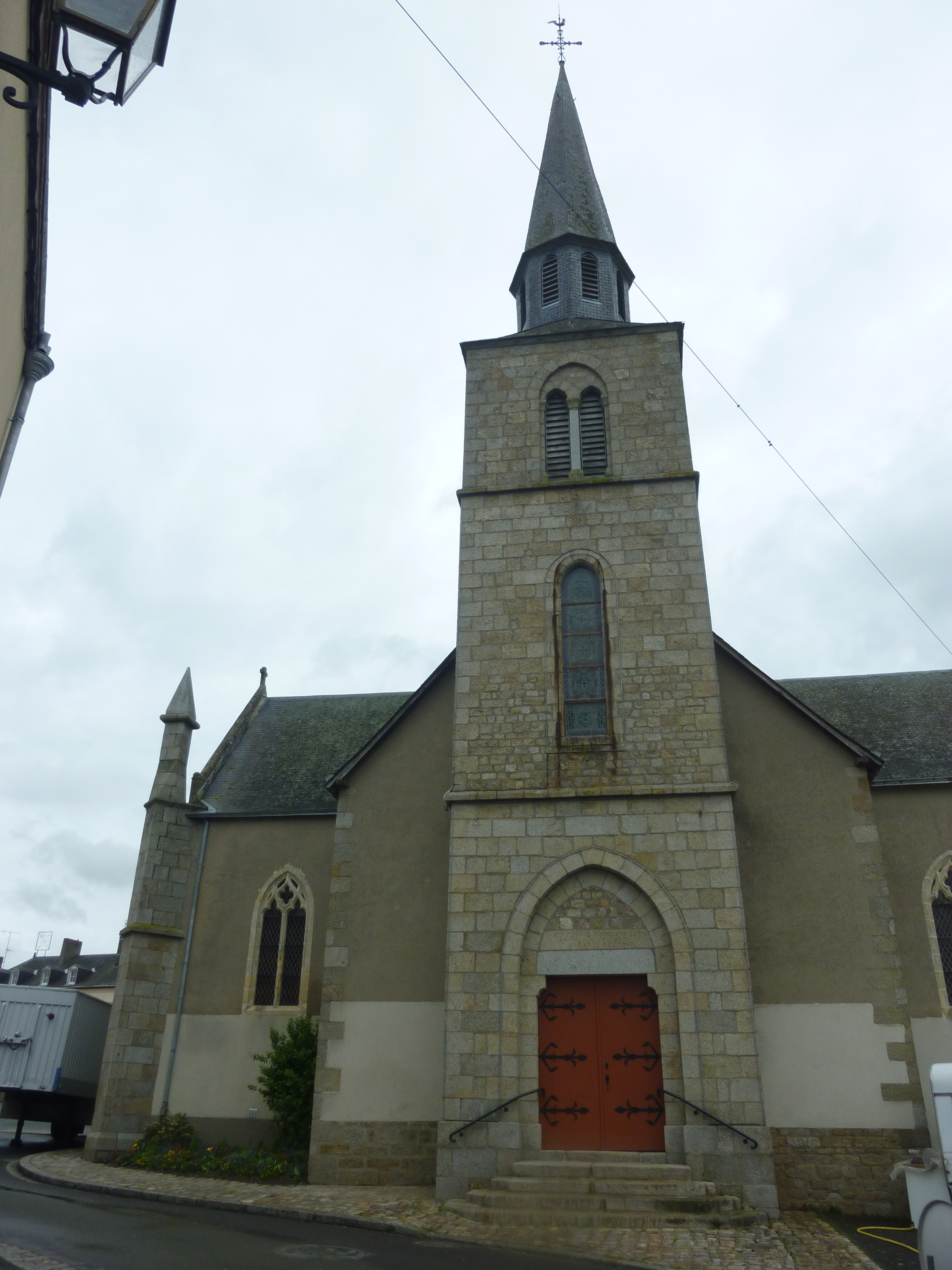 Church in Martigné-sur-Mayenne. Front.